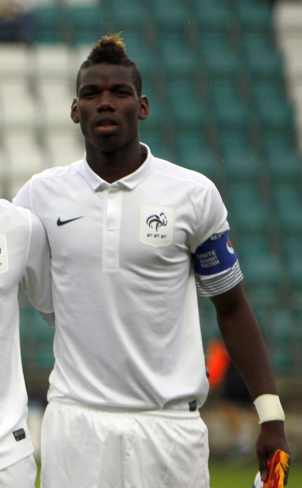 U-19 Spain vs France.